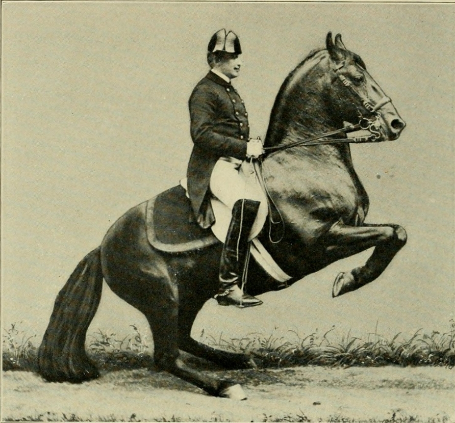 First Chief Rider Zrust and Favory Ancona I performing the Levade.